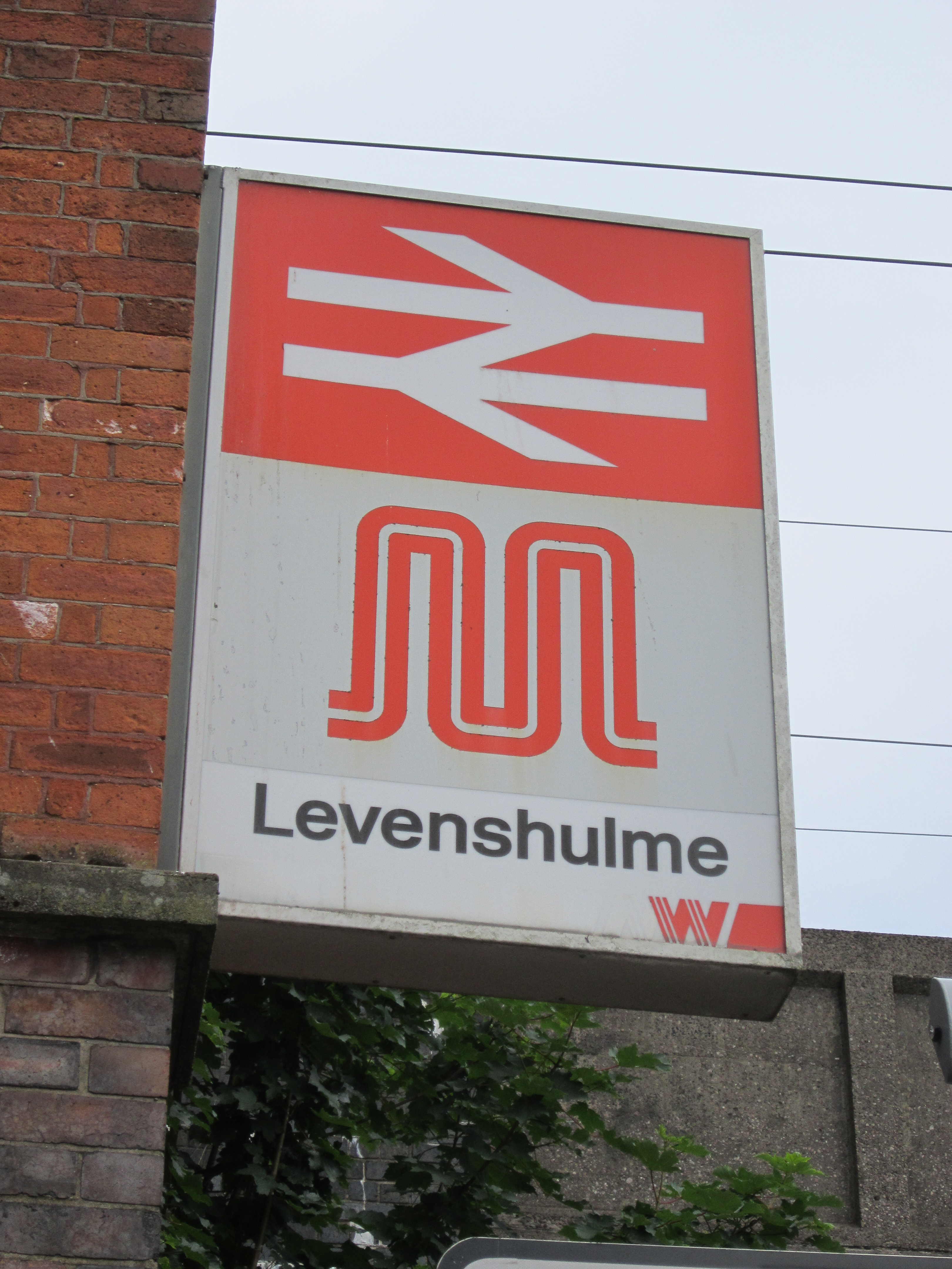 Photo taken at Levenshulme railway station, Manchester, England.